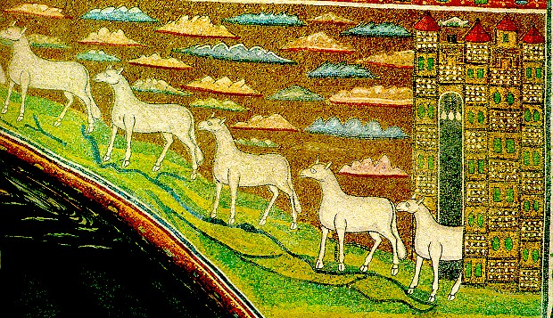 6th century Byzantine mosaic in the apse of the basilica of Sant'Apollinare in Classe (Ravenna, Italy)